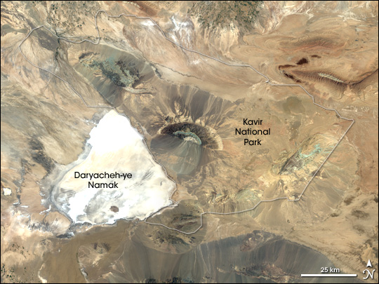 Landsat image of Kavir National Park in Iran. This image combines data from two different satellite overpasses of the area collected by the Enhanced Thematic Mapper Plus (ETM+) on the Landsat 7 satellite. The left half of the image was acquired on August 28, 2000, the right half on September 7, 2001.